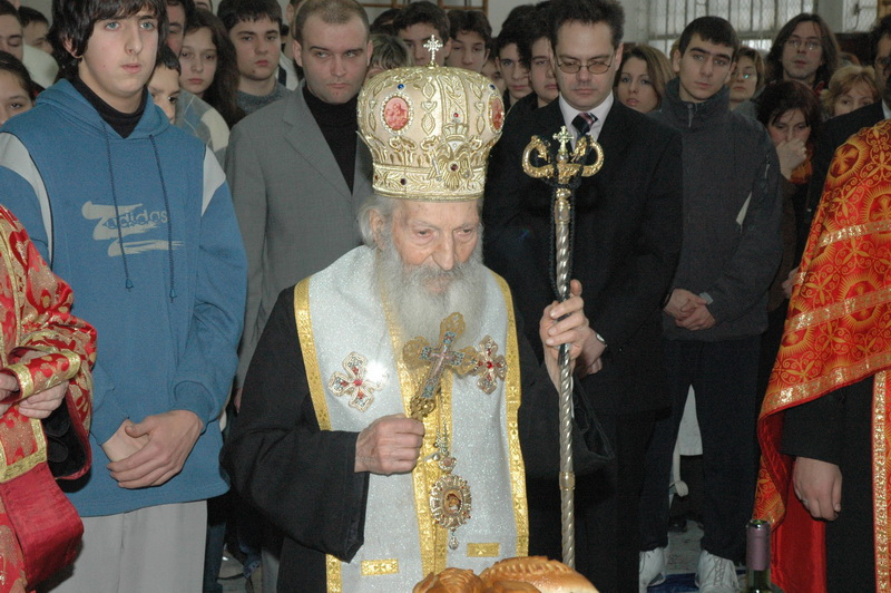 Visit of His Holiness, the Archbishop of Peć, Metropolitan of Belgrade and Karlovci, Serbian Patriarch Pavle, to Mathematical Gymnasium Belgrade, January 25, 2005. Viewers right from His Holiness, the Archbishop of Peć, Metropolitan of Belgrade and Karlovci, Serbian Patriarch Pavle, is then Principal of Mathematical Gymnasium Belgrade, professor Vladimir Dragović. This picture taken in Mathematical Gymnasium Belgrade sports facility.